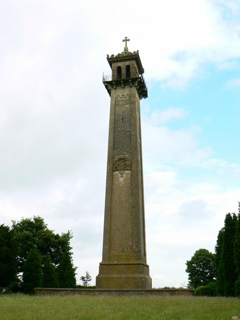 Monument to General Lord Robert Somerset near Hawkesbury Upton. Quite an impressive monument but could do better: 344538